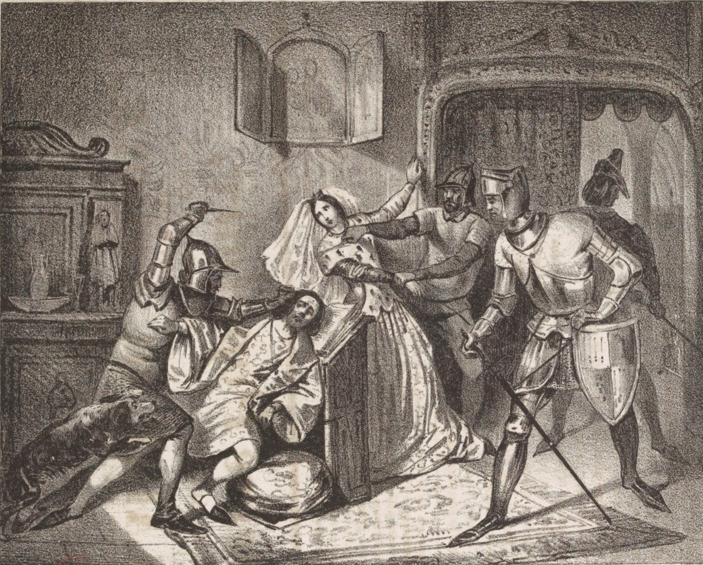 "The Death of John of Armagnac", lithograph by Delaunois, after a history painting by Louis Henri de Rudder exhibit at the Salon of 1835, depicting the murder of Count John V of Armagnac in 1473